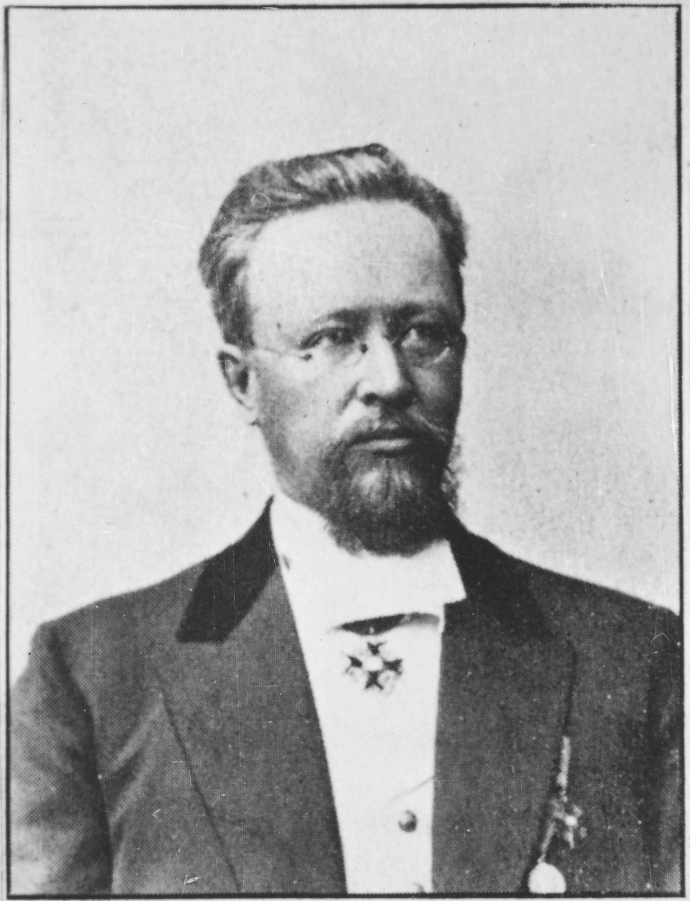 Eliel Soisalon-Soininen (1856–1905), Finnish Chancellor of Justice.